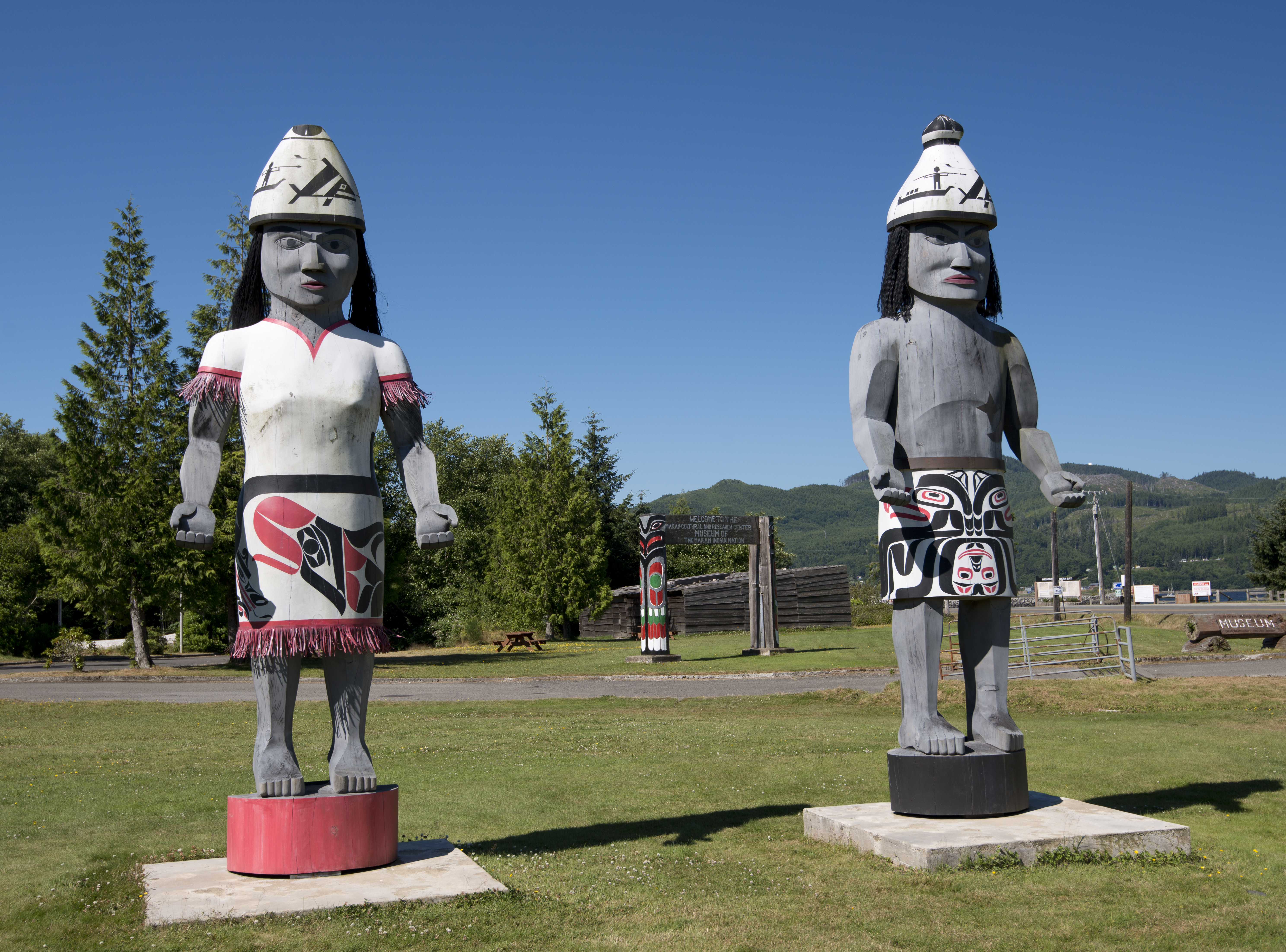 The Makah Indian Reservation occupies the northwest corner of Washington's Olympic Peninsula, including the town of Neah Bay and Cape Flattery. These statues and the cultural center and museum are in Neah Bay. I spent two nights at the Hobuck Beach Resort and Campground, on the west side by Makah Bay.